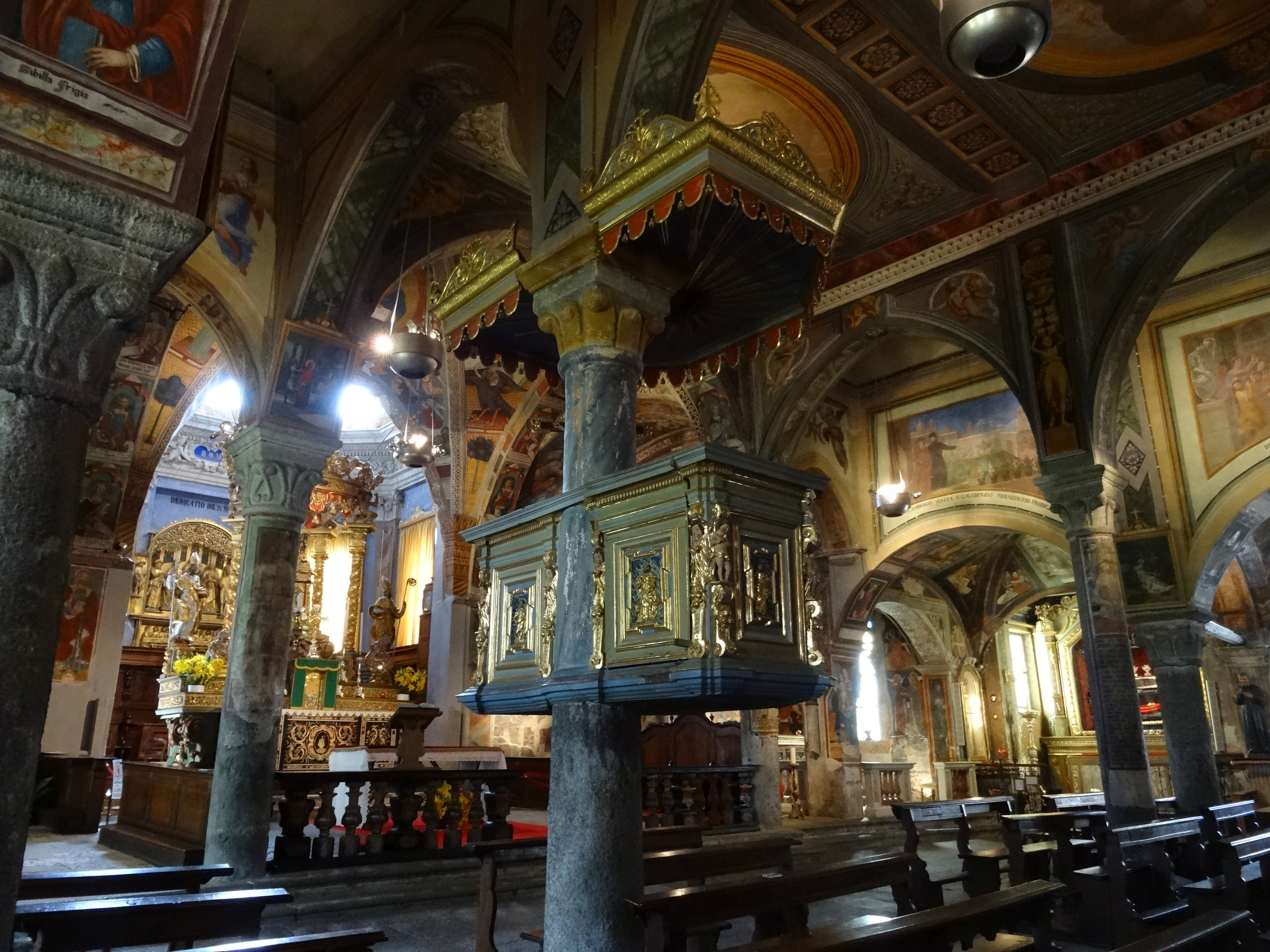 the pulpit in the monumental church of San Gaudenzio, Baceno